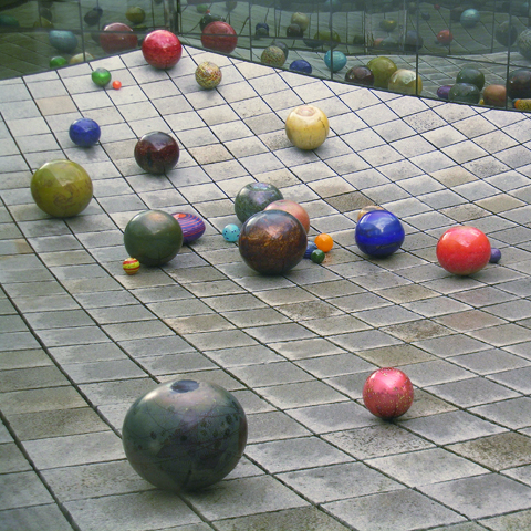 Richard Rhodes' Untitled Stone Wave is a permanent installation at the Tacoma Art Museum. In addition to providing a strong base in its own right, the piece serves as a base for other artists, such as Chihuli's Niijima Floats shown in this image.